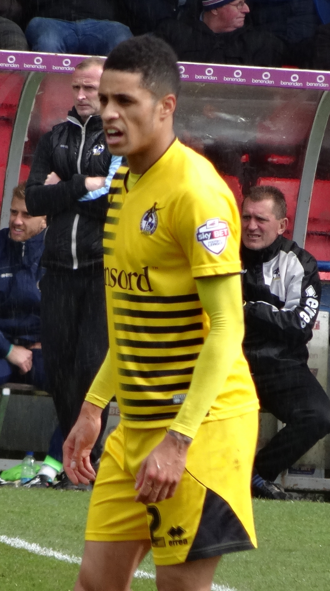 Daniel Leadbitter playing for Bristol Rovers against York City at Bootham Crescent, York on 30 April 2016